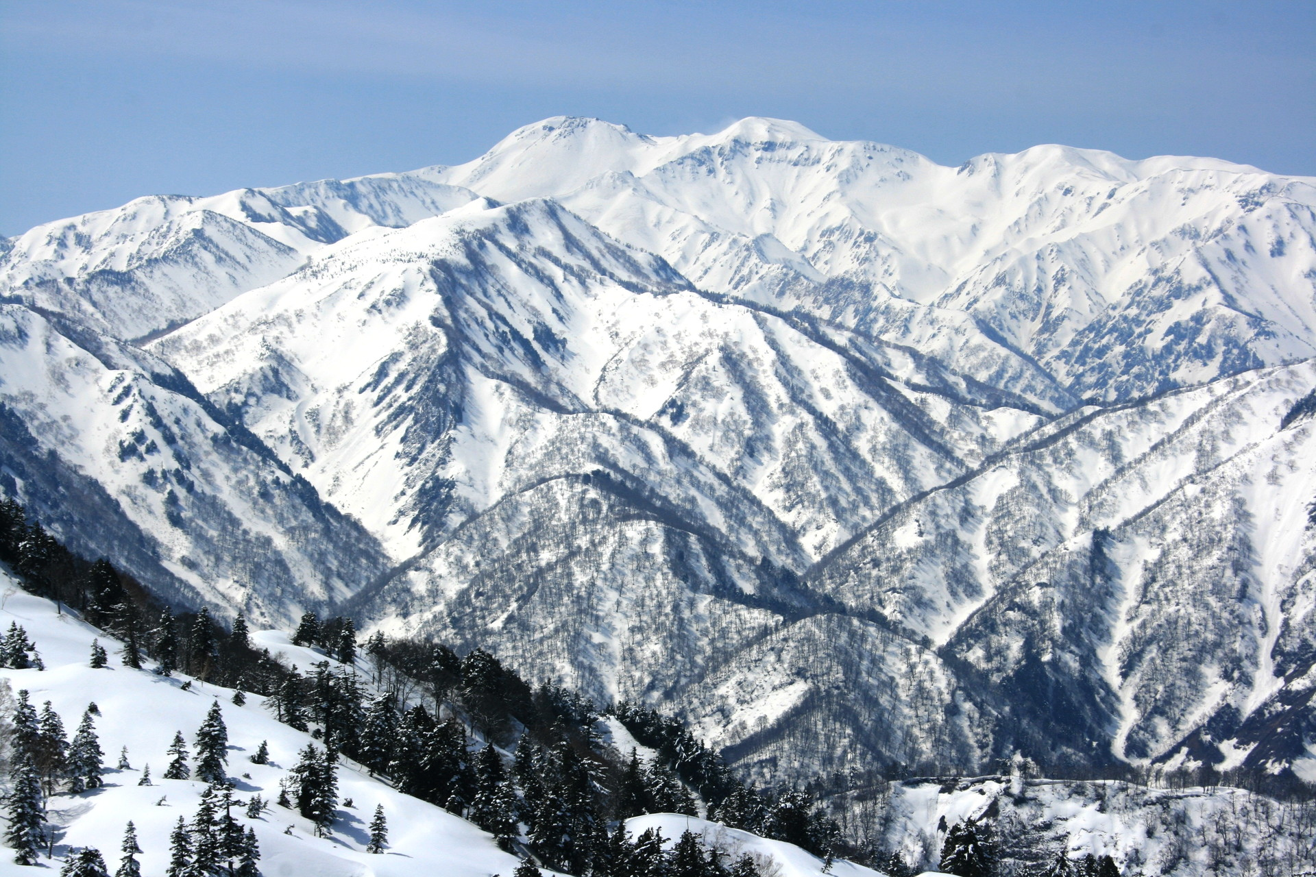 Mount Haku from Mount Sanpōiwa